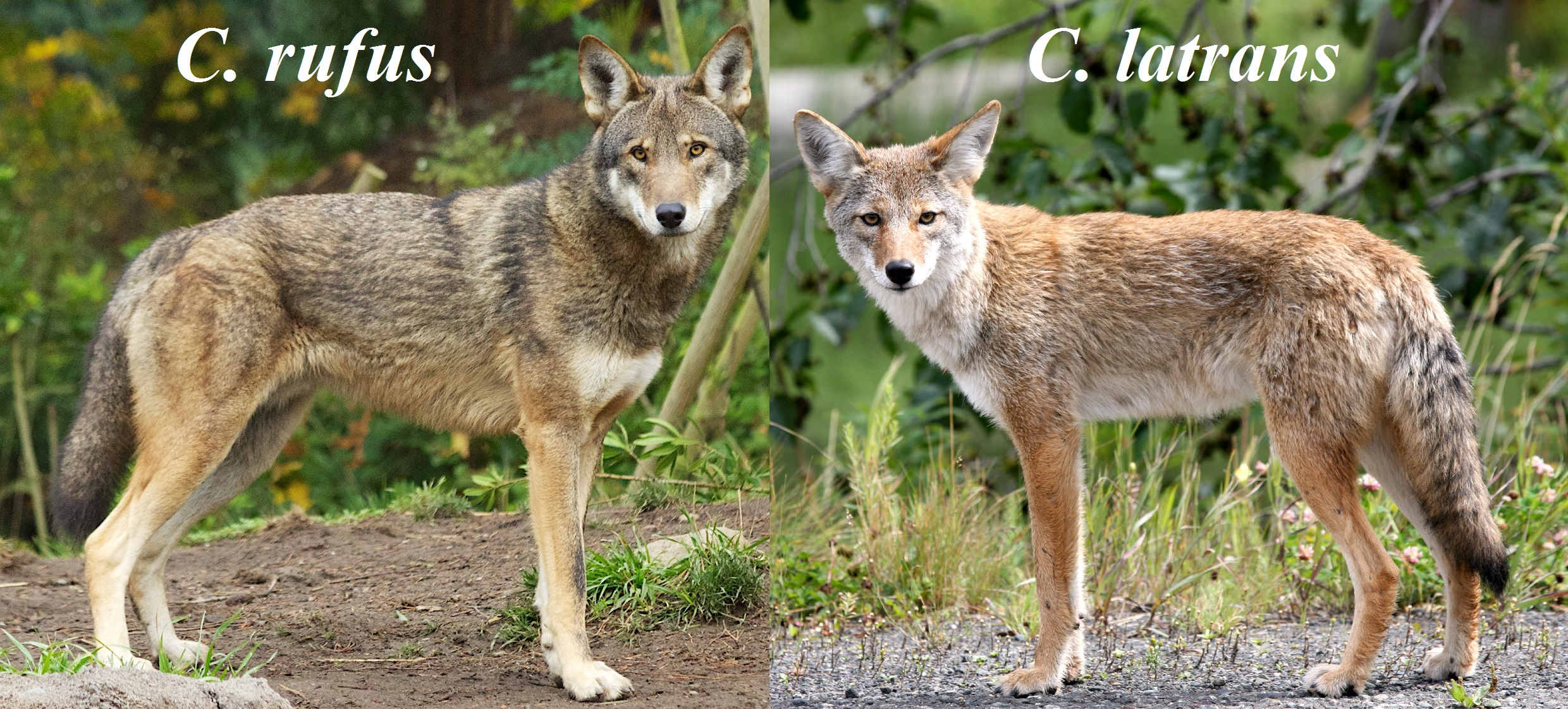 Comparative image of a red wolf (C. lupus rufus) and a western coyote (C. latrans incolatus)